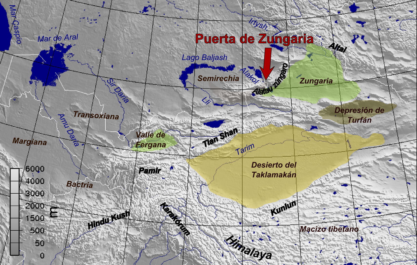 Location of the Dzungarian Gate in Central Asia.